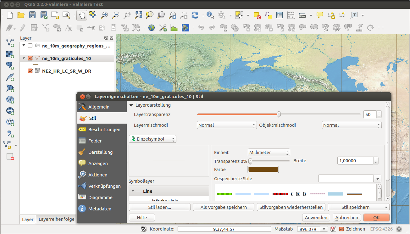 QGIS 2.2 Valmiera screen shot running under Ubuntu 13.10. The new menu design in visible. Data from Natural Earth Data.